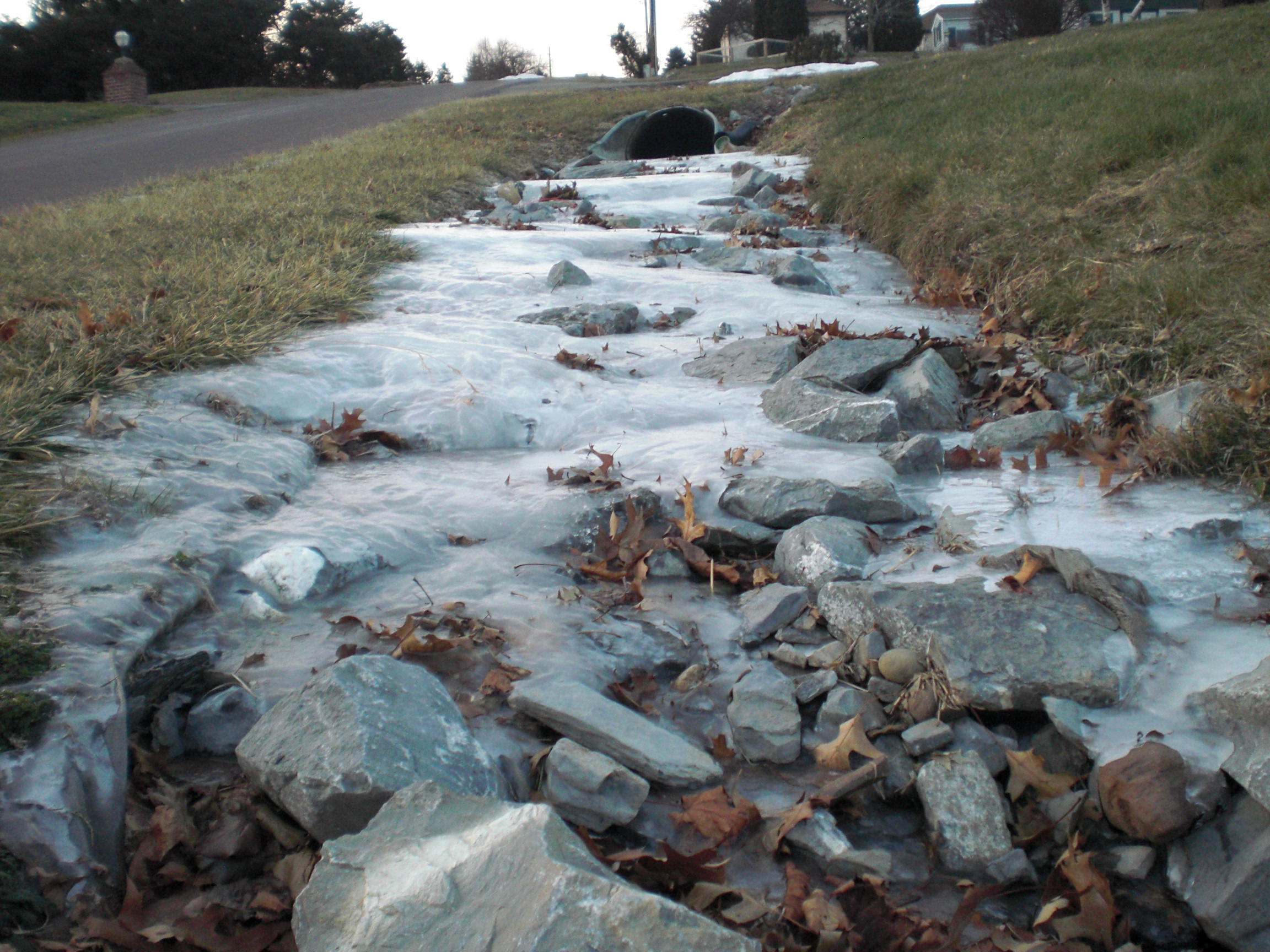 A rivulet was flowing through a rocky streambed and became frozen.